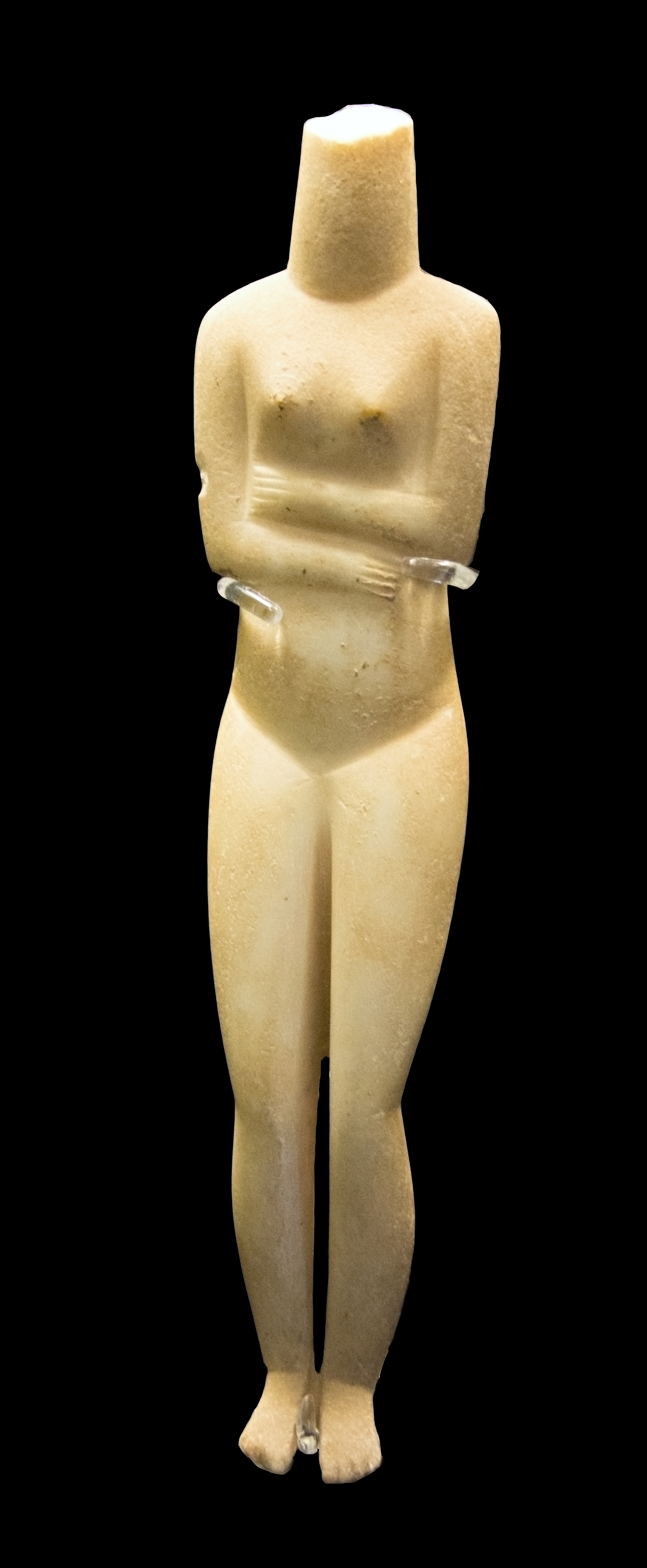 Cycladic figurine of a woman, marble, Kapsala type. Early Bronze Age, EC II, 2700 – 2600 BC, British Museum GR 1875.3-13.1, BM Cat Sculpture A25.